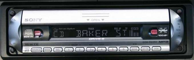 Sony car stereo showing 14-segment characters on a backlit Liquid Crystal Display (LCD). Note the tiny "nicks" in the uppermost and lowermost horizontal segments of the characters of this display, are not breaks and so the whole of these segments is operated at once. This is therefore only a 14-segment display arrangement. At the top left is a logo indicating that an ATRAC3plus CD is playing, created on Sony Sonicstage software. Picture taken by Colin McCormick ( and provided for Wiki use. Colin99 12:02, 8 August 2006 (UTC)